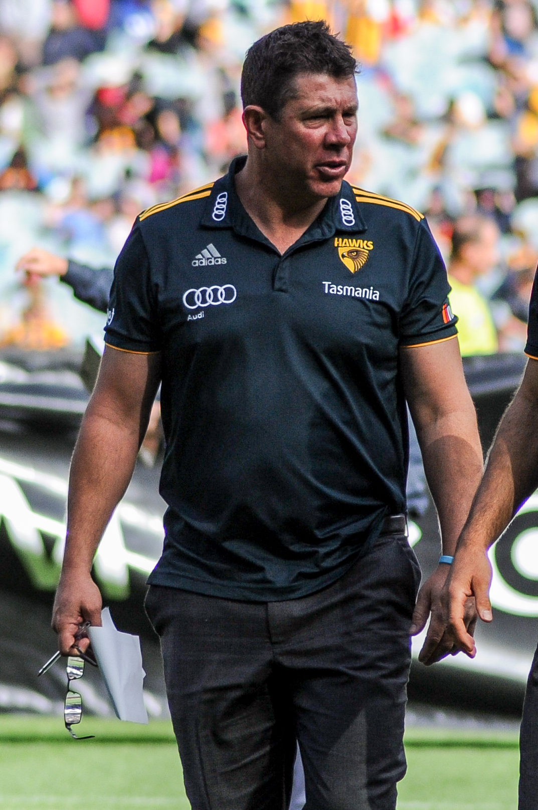 Brett Ratten during the AFL round two match between Hawthorn and Adelaide on 1 April 2017 at the Melbourne Cricket Ground in Melbourne, Victoria.